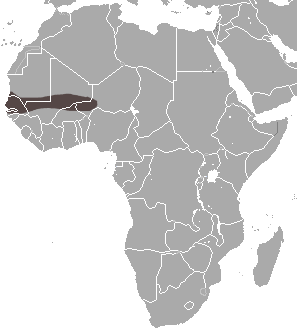 Cinderella Shrew (Crocidura cinderella) range